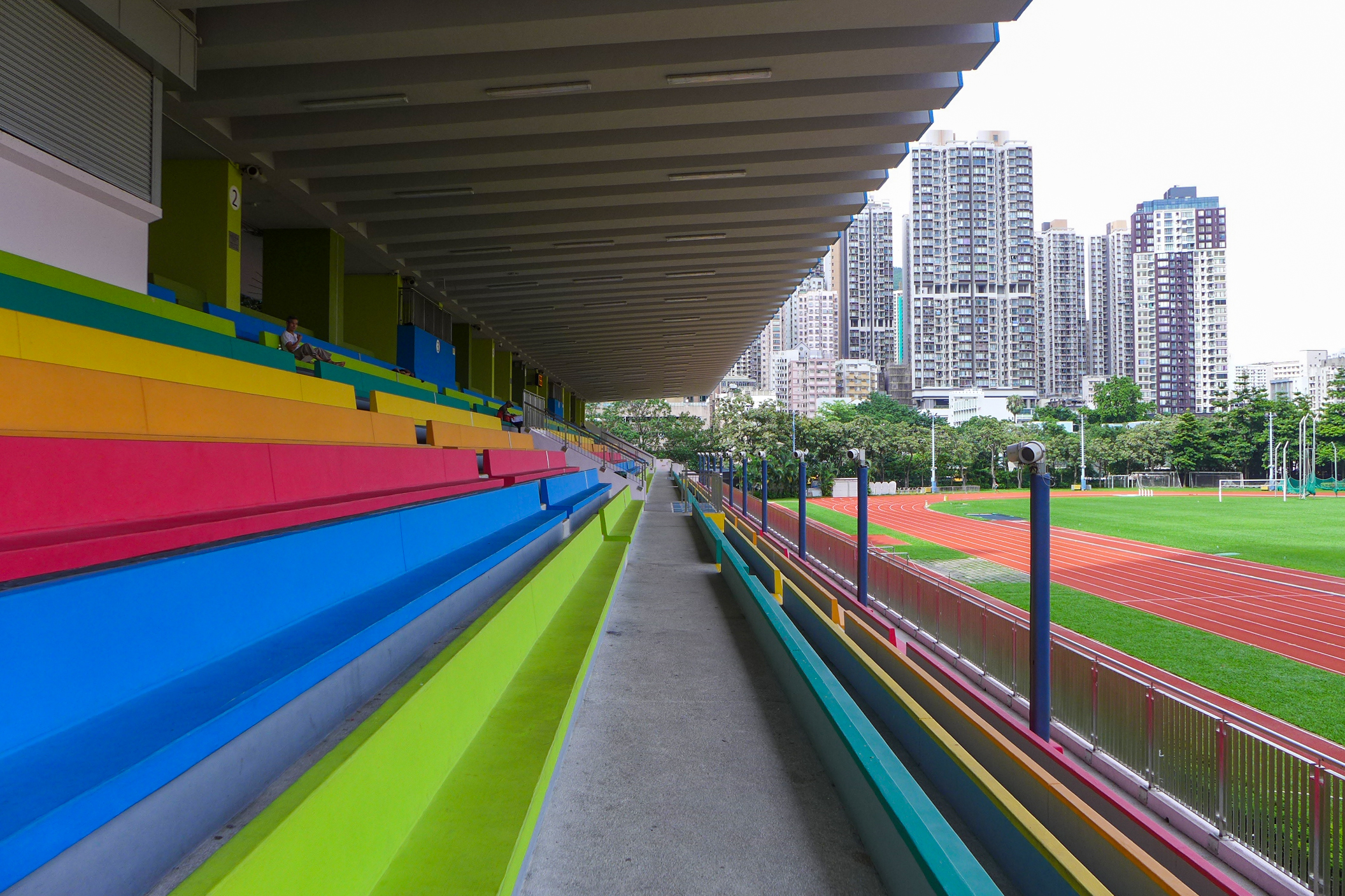 Sham Shui Po Sports Ground Viewing platform